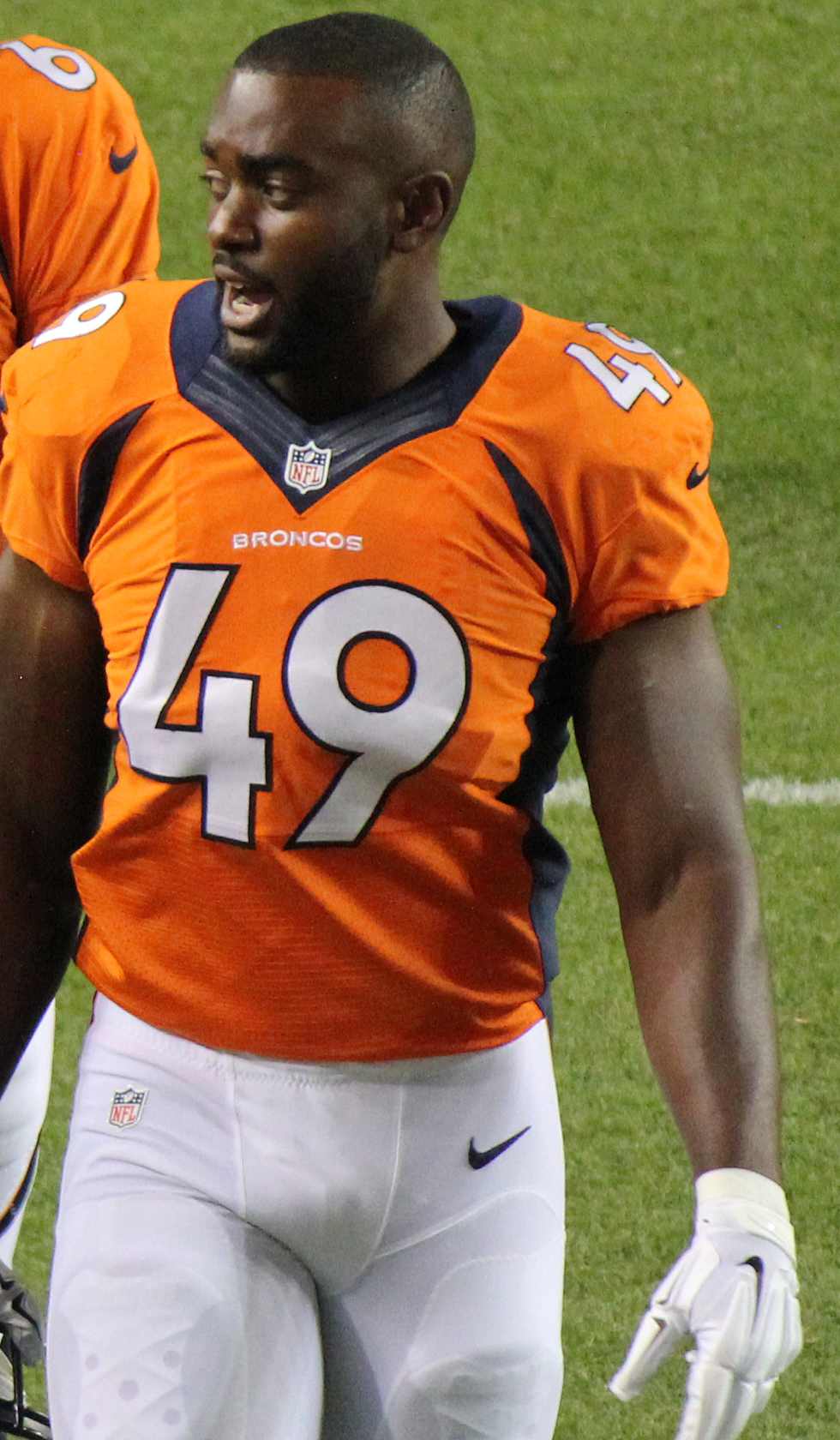 Chase Vaughn, a National Football League player.